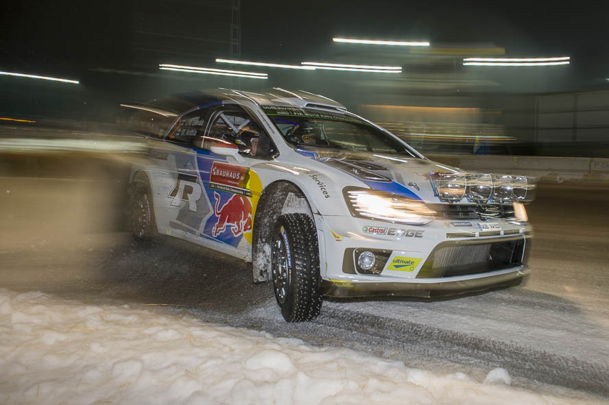 Rally Sweden 2014 Jari-Matti Latvala,Karlstad 1,Mikka Anttila,Motorsport,Rally,Rally Sweden,Rallye,Rallye Schweden,SS1,VW Polo R WRC,Volkswagen Motorsport,Volkswagen Polo R WRC,WP1